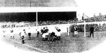 Villa Park in 1899 hosting an international between Scotland and England.